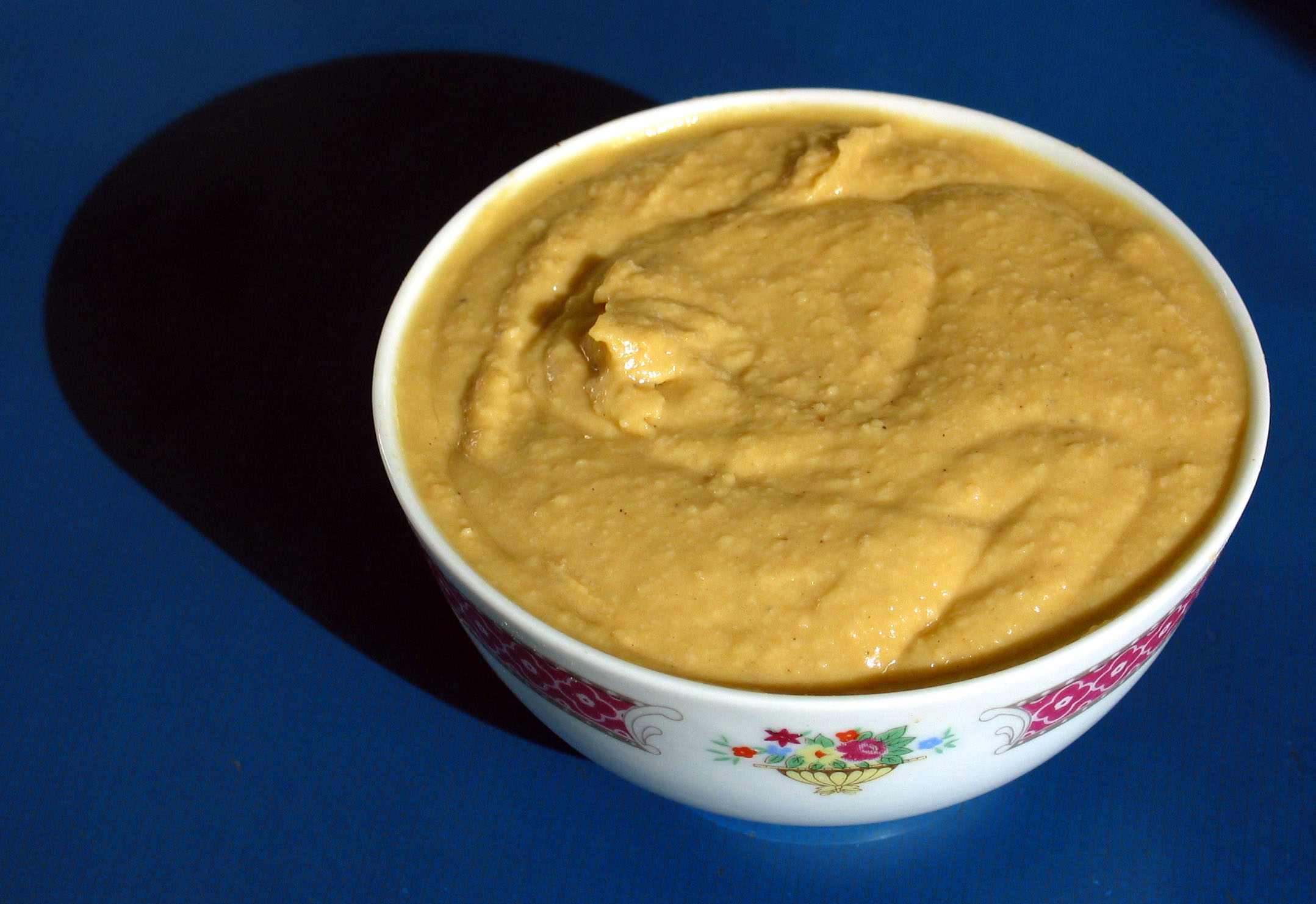 This is a bowl of hummus.